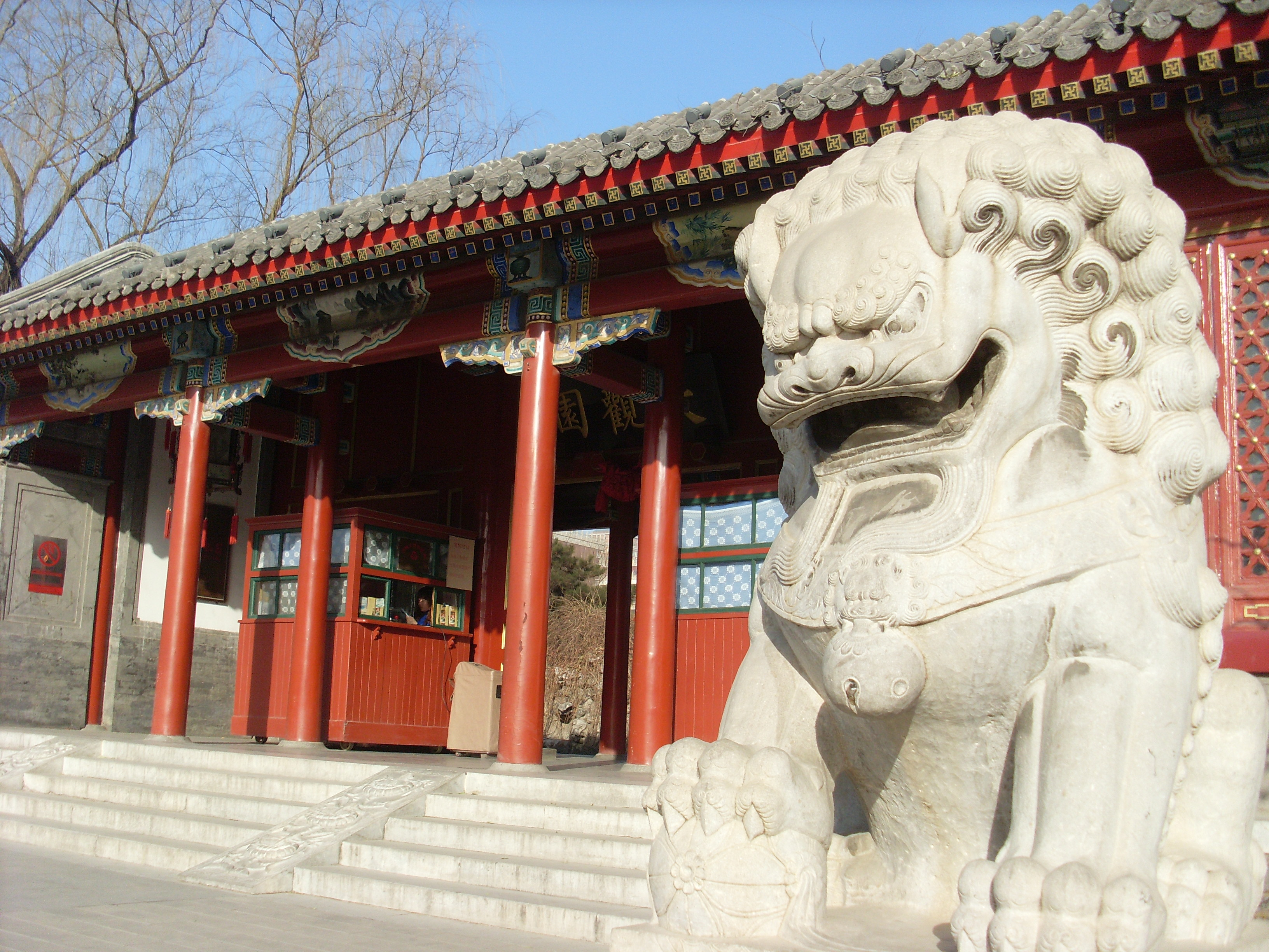 The main gate of Daguanyuan in Beijing. Chinese stone lion.